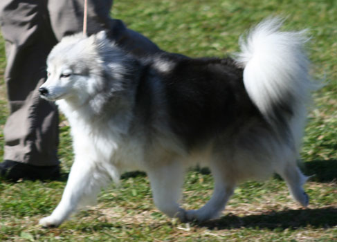 Picture of a "long-haired" or "full-coated" Alaskan Klee Kai taken at a show in Jan 2008